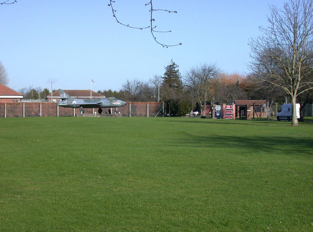 Entrance to Waterbeach Barracks Waterbeach is the home of 12 Engineer Group (Air Support). The site was an RAF base during and after WWII, and the Hawker Hunter WN904 stands as a memorial to the planes of this type which flew here in the late 1950s are early 1960s